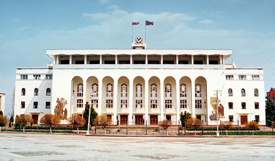 The Government Building of the Republic of Dagestan. Located in the capital city of Makhachkala, in southwestern Russia.